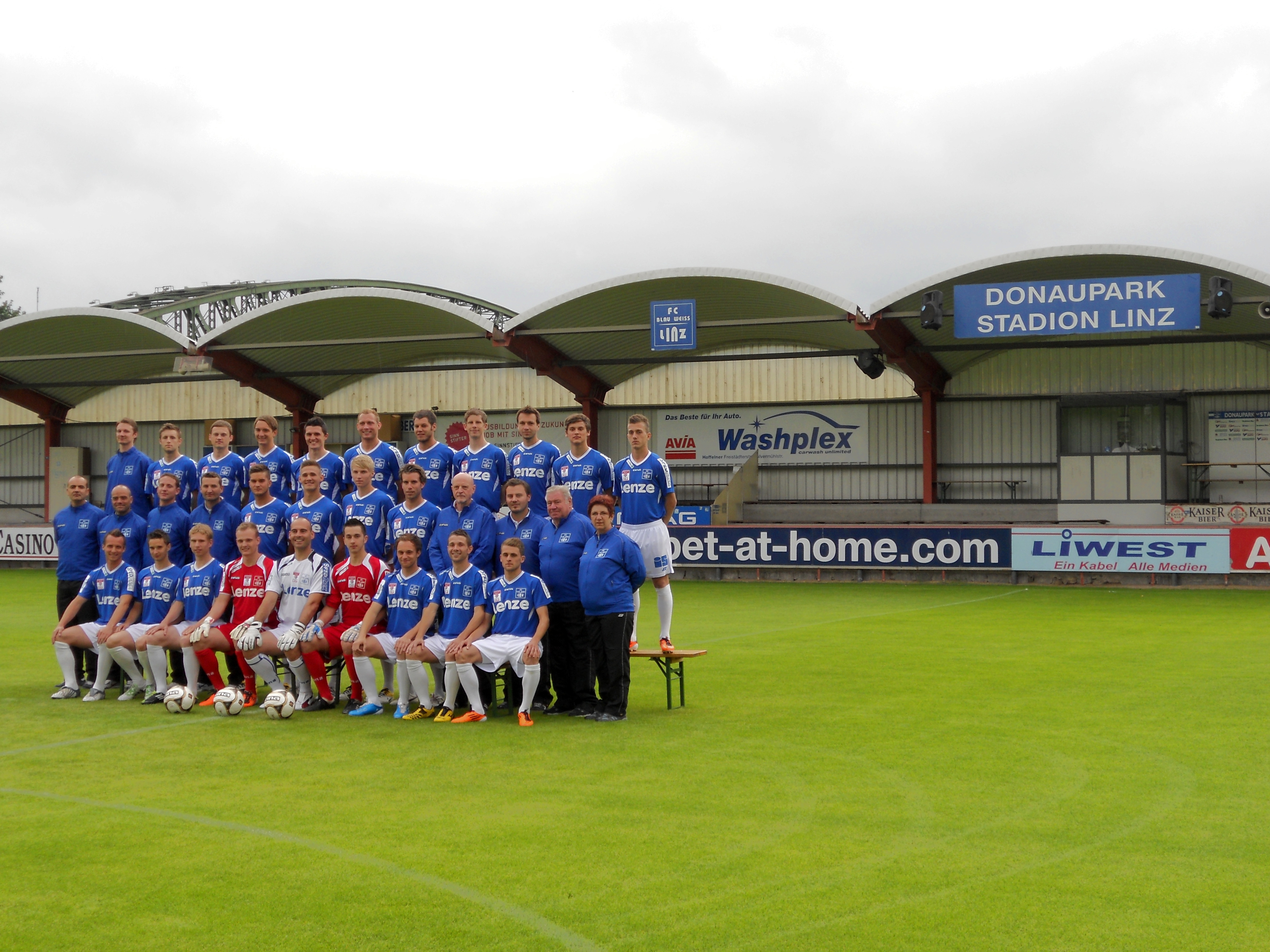 Team of Austrian "First League"-football club FC Blau-Weiss Linz for 2011-12 season, photographed at their home ground "Donaupark-Stadion"